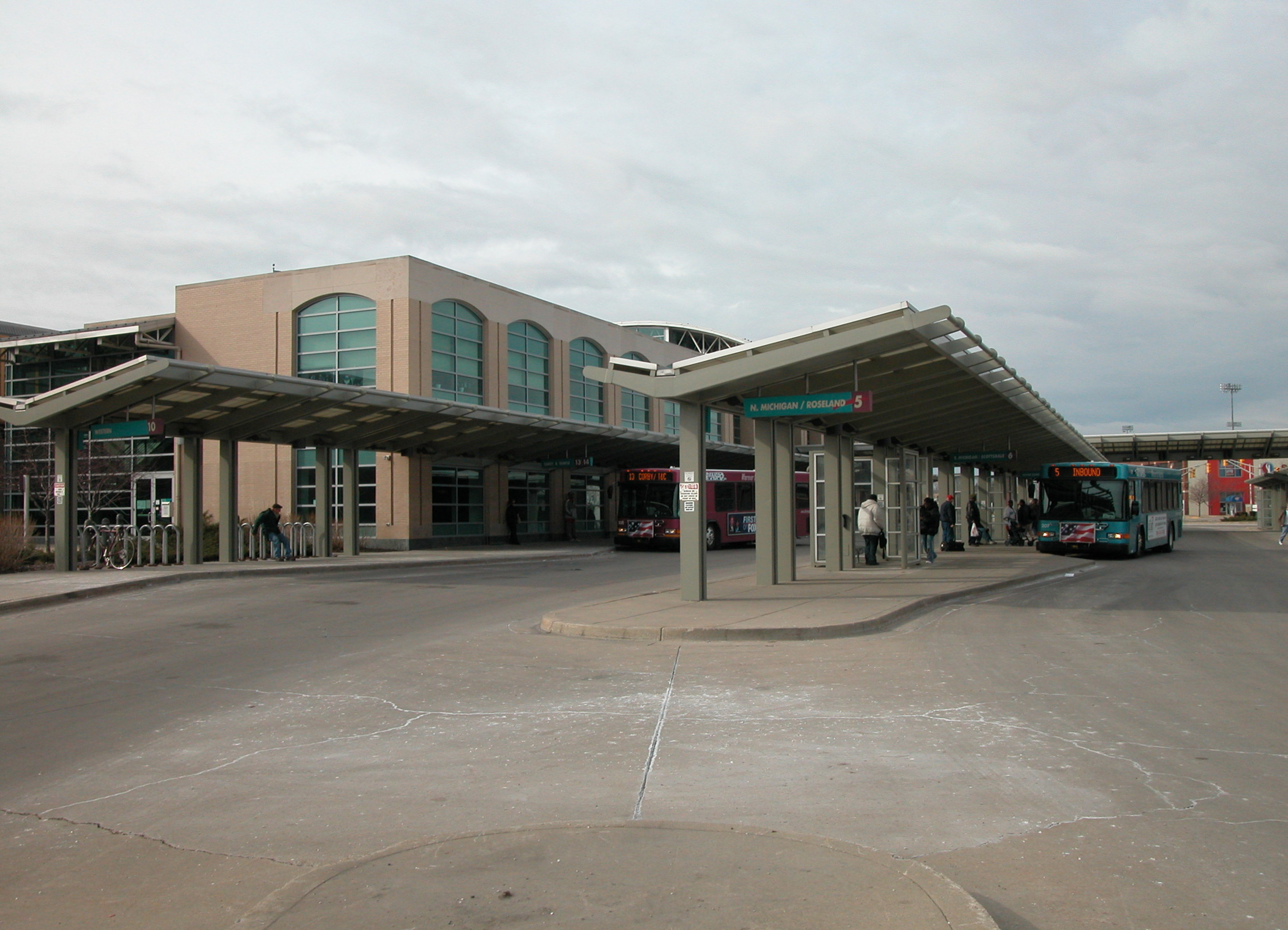 20060128 08 South Bend Public Transportation Corp. South St. Station